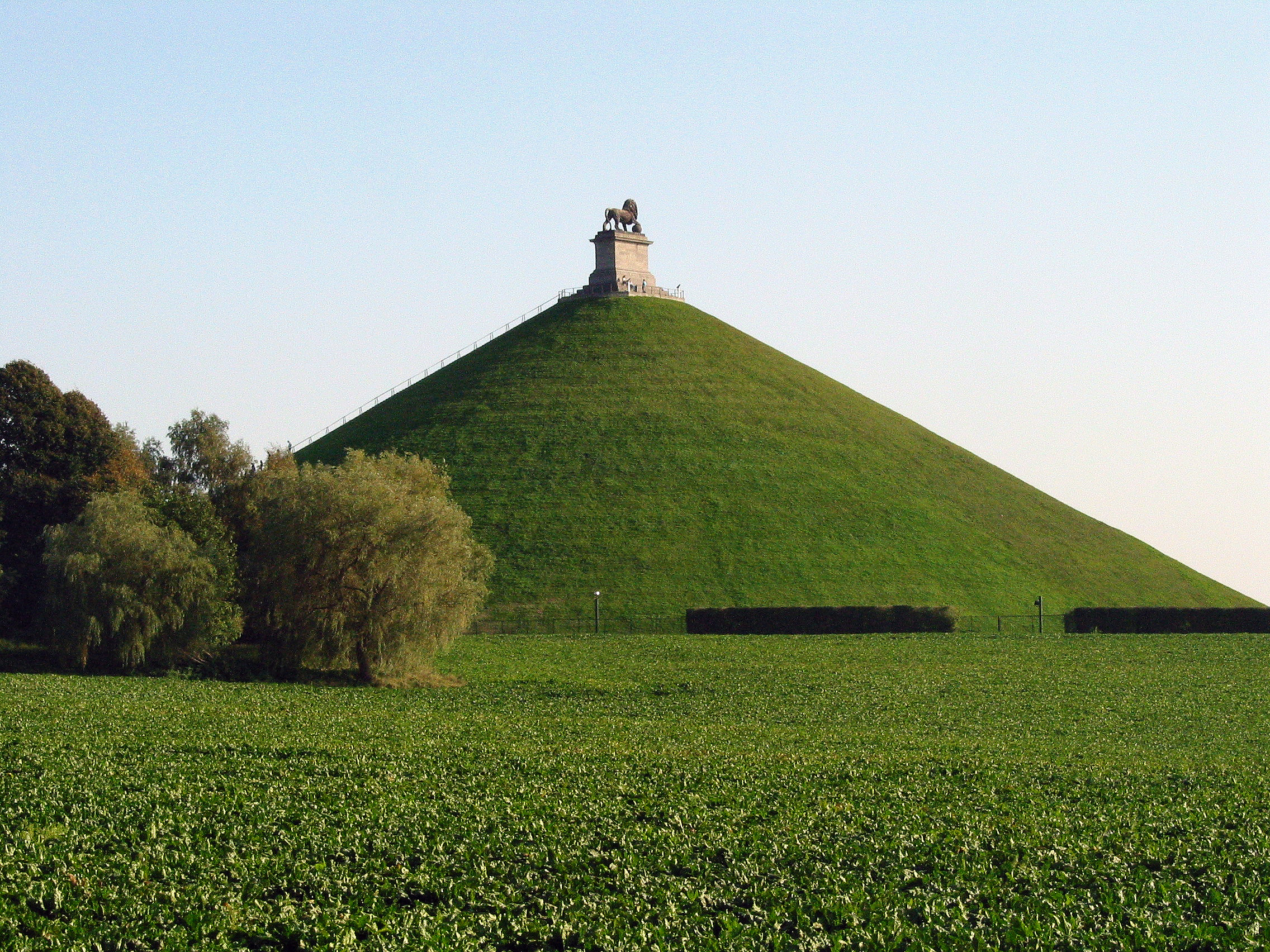 Braine-l'Alleud, the Lion Mound. - Commemorative monument of the Battle of Waterloo standing on the spot where the Prince of Orange was wounded during the fight.